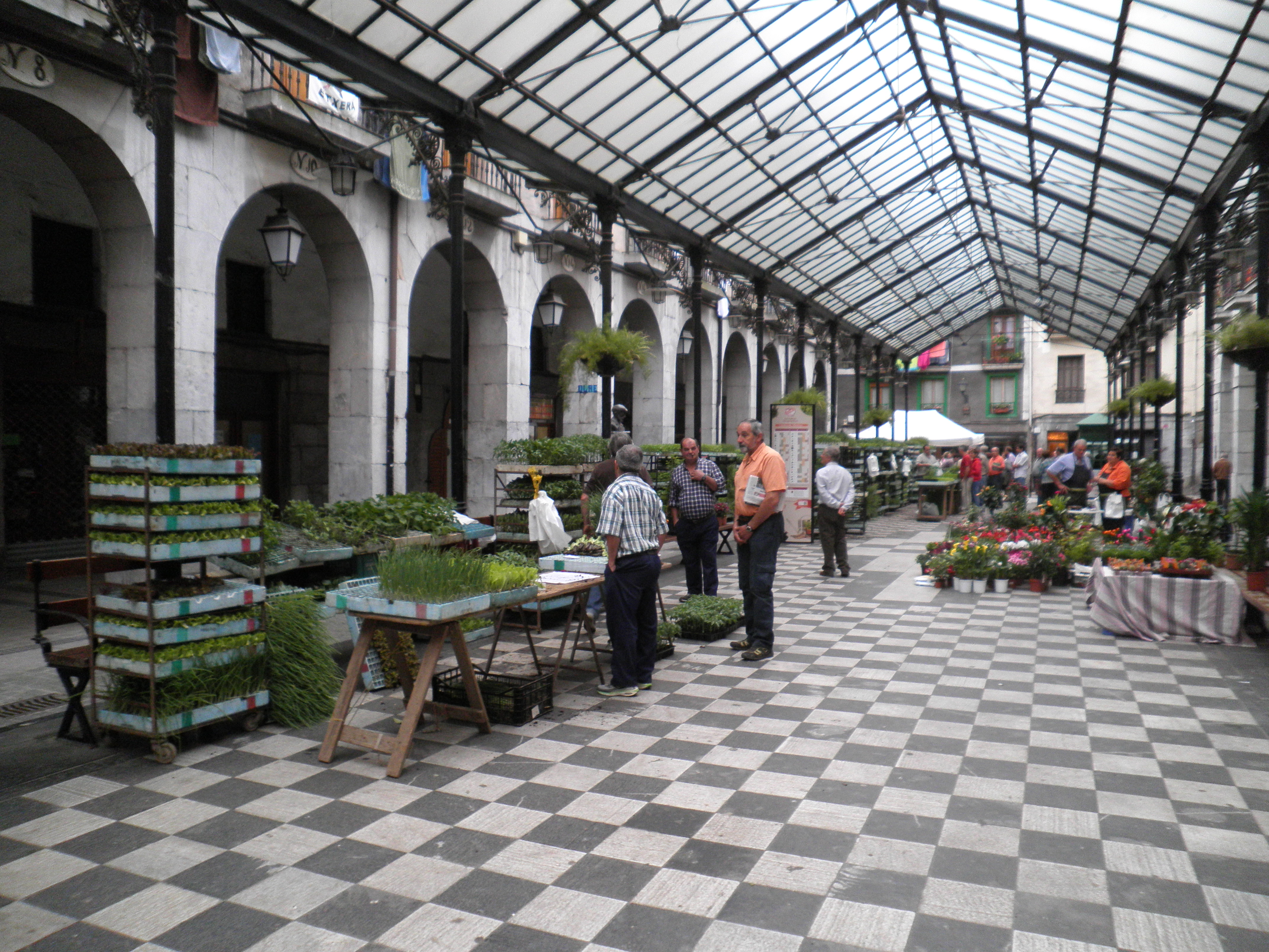 Berdura square in Tolosa.